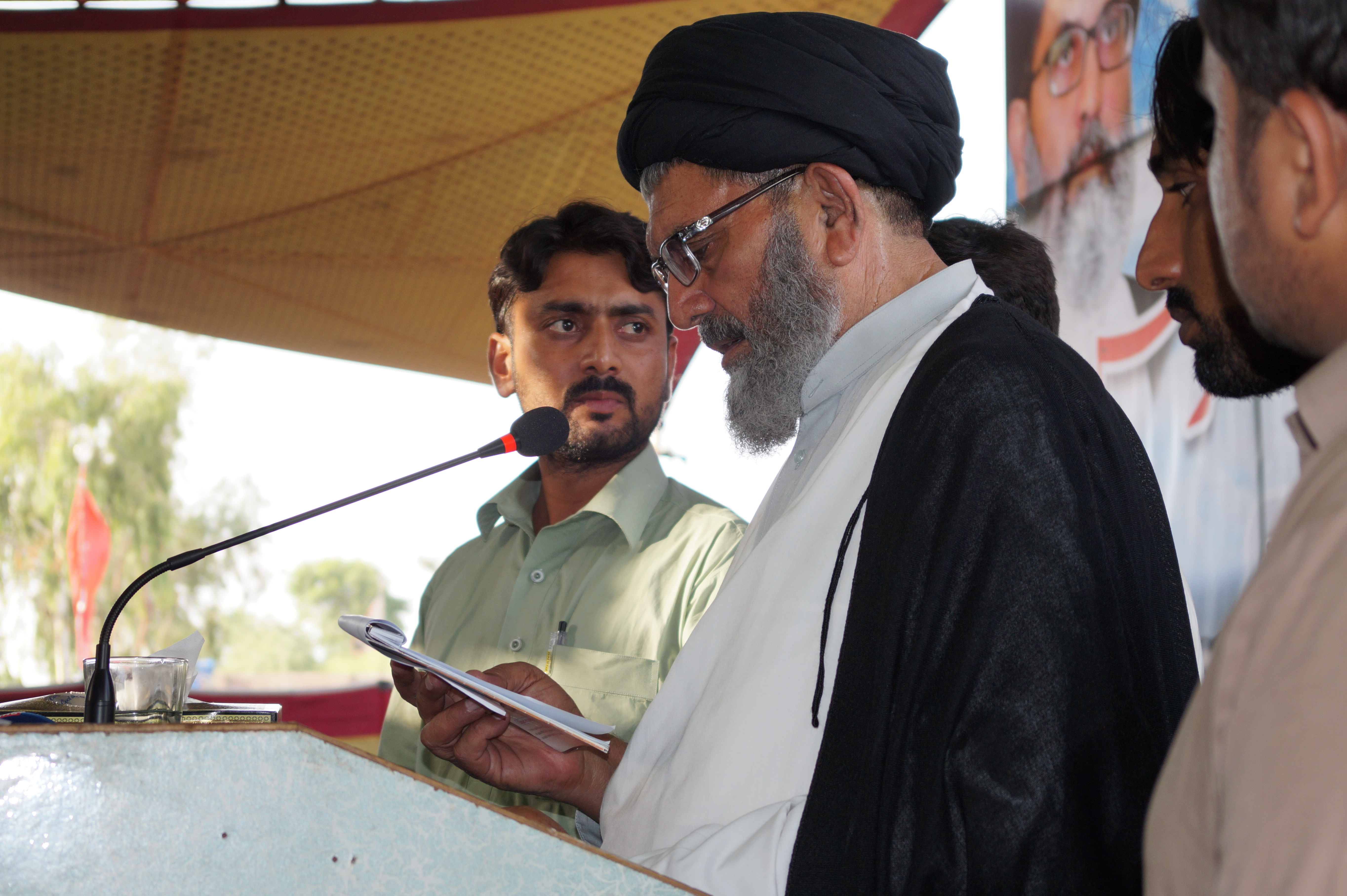 Syed Allama Sajid Ali Naqvi is giving the speech at Azadari Conference in Multan among others scholars.